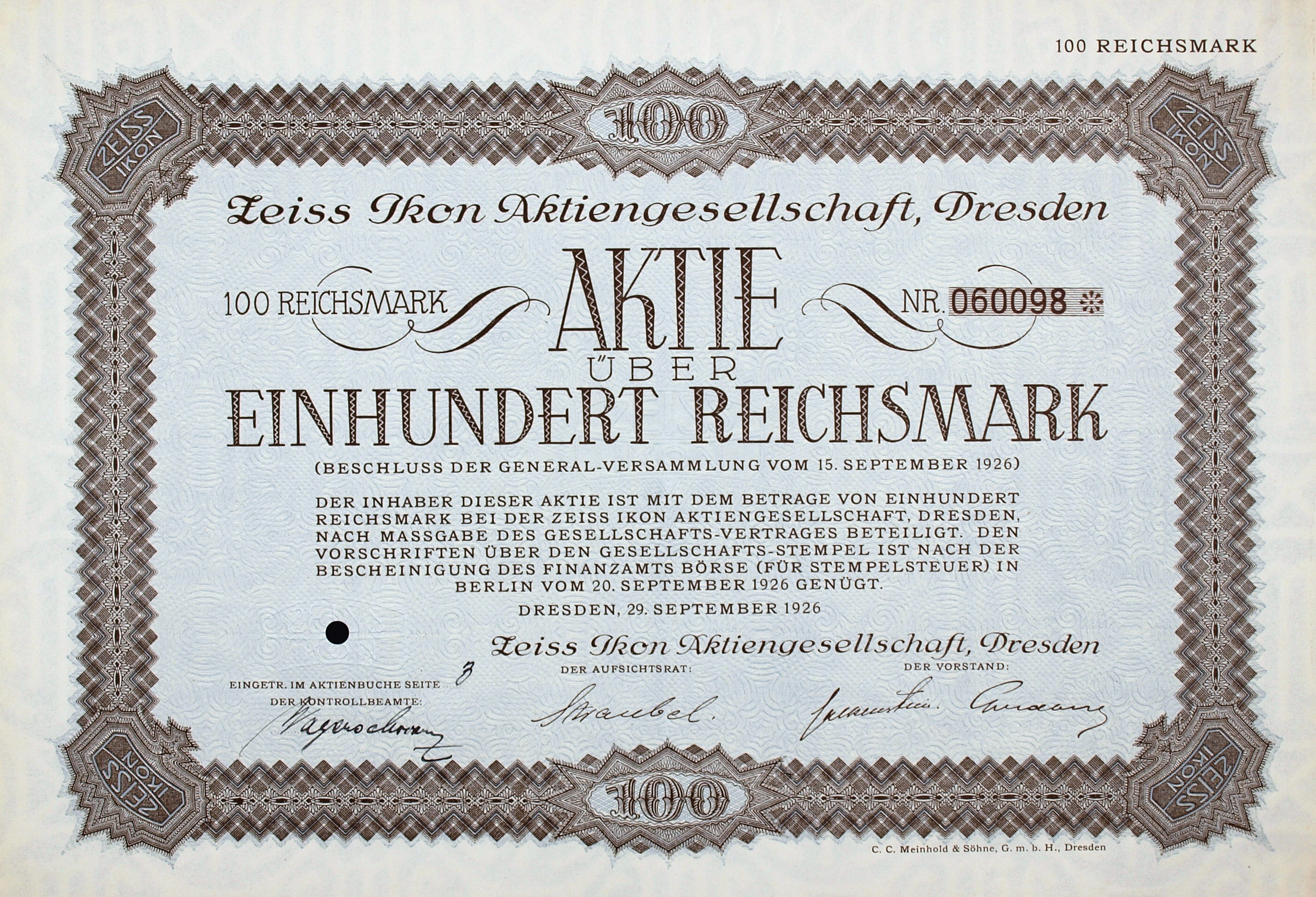 Share of the Zeiss Ikon AG, issued 29. September 1926